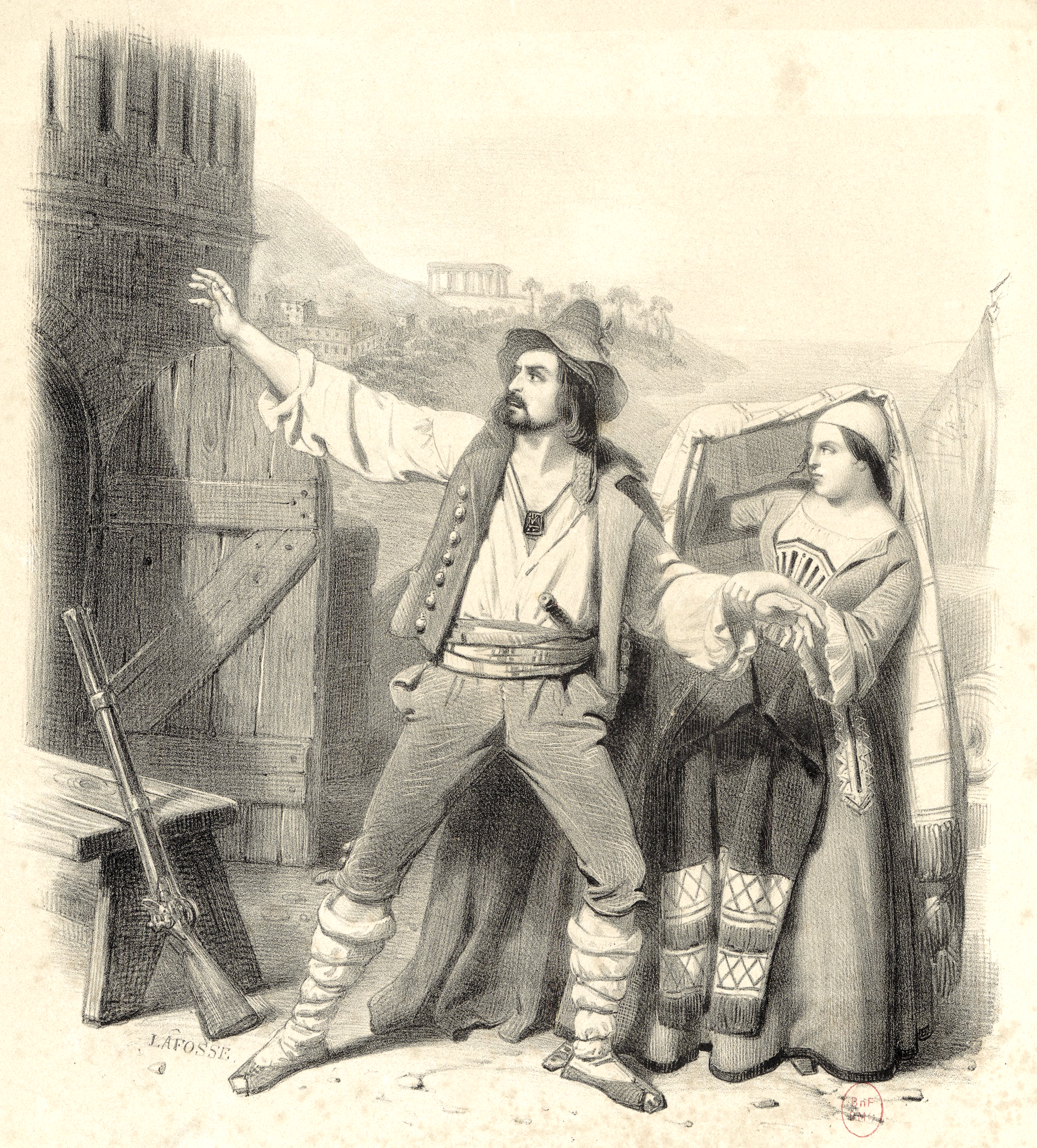 Étienne Mélingue (1807–1875) and his wife Théodorine (1813–1886) on the stage of the Théâtre de l'Ambigu, in 1842, in the Gaëtan il Mammone by Frédéric Soulié.